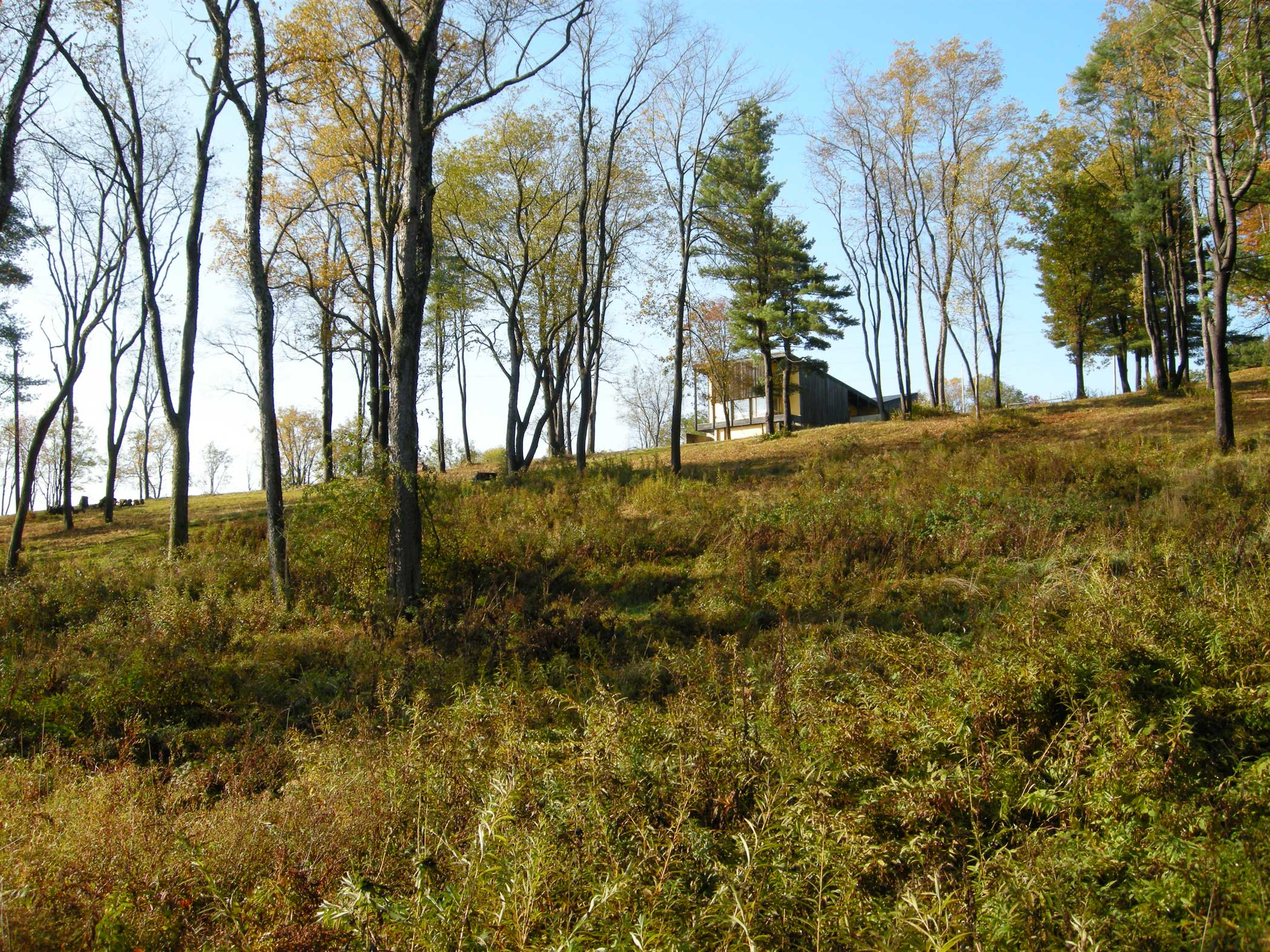 Site of the deserted ghost town of Pithole, Pennsylvania, United States. The interpretive center is seen at the top of the hill.